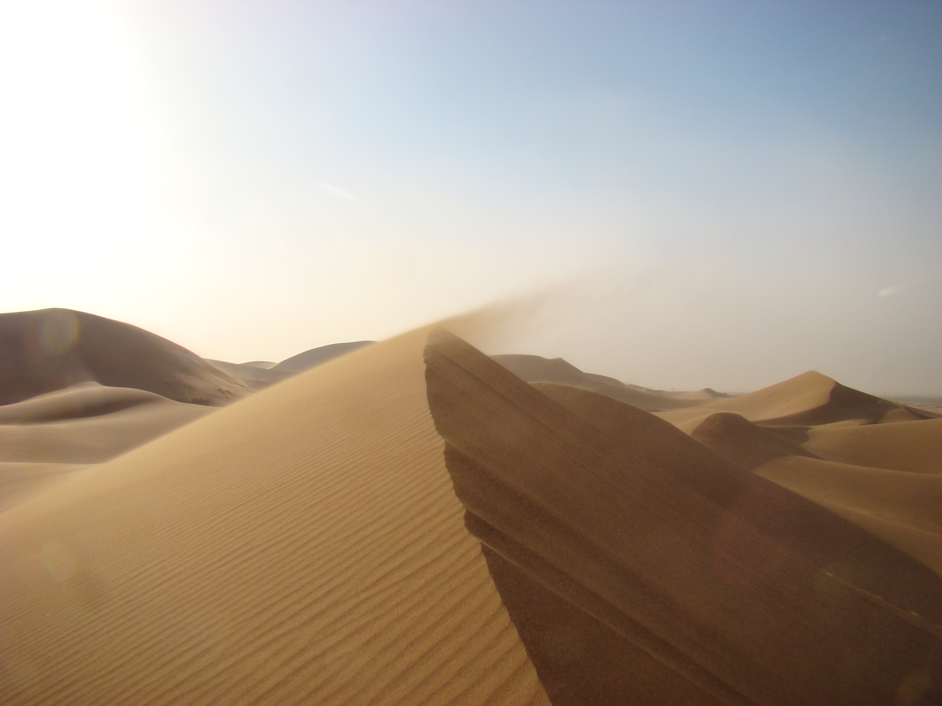 Dune Chegaga